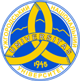 Transcarpathian State University